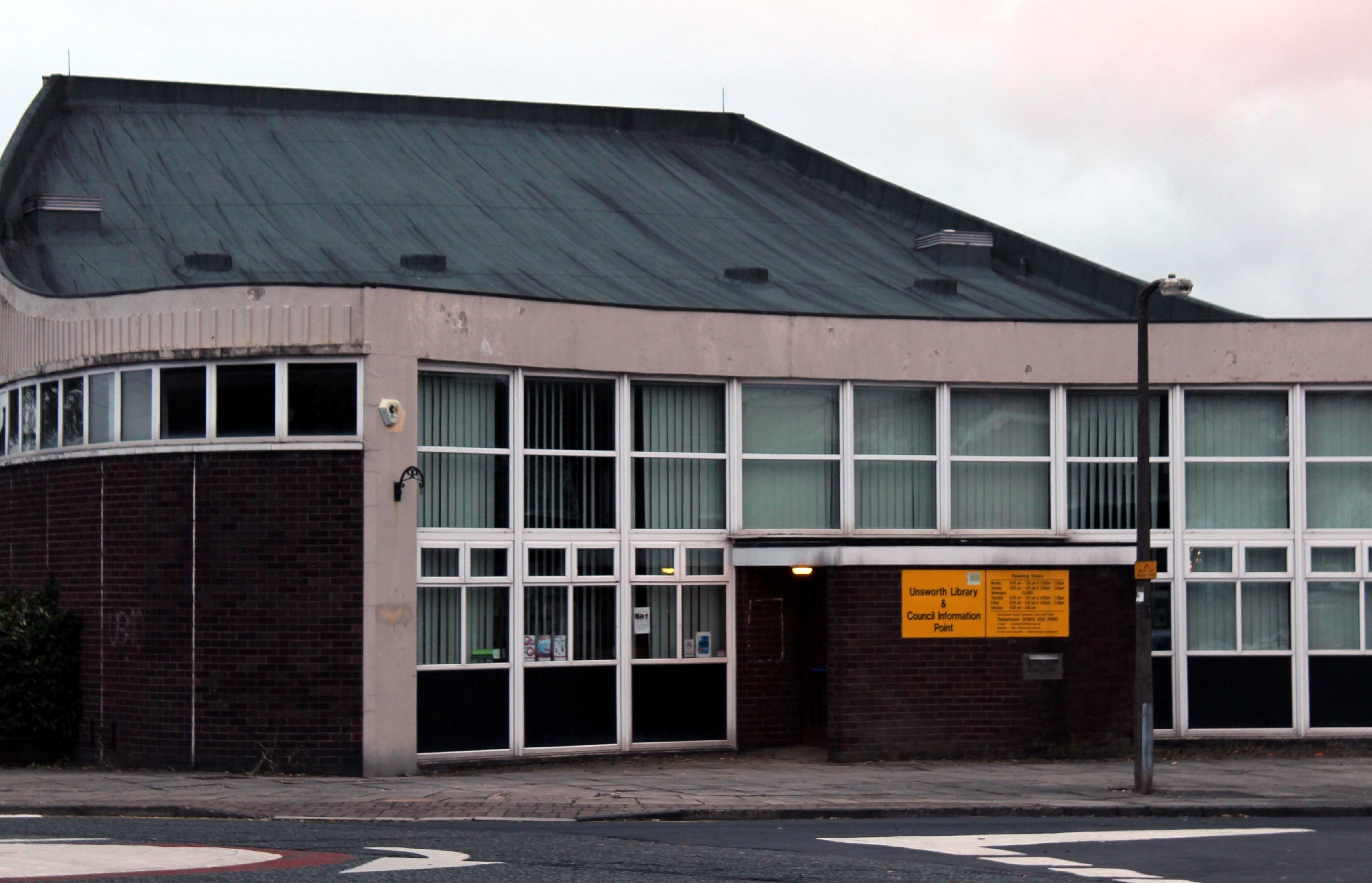 Unsworth Library, Sunnybank Road, Unsworth.